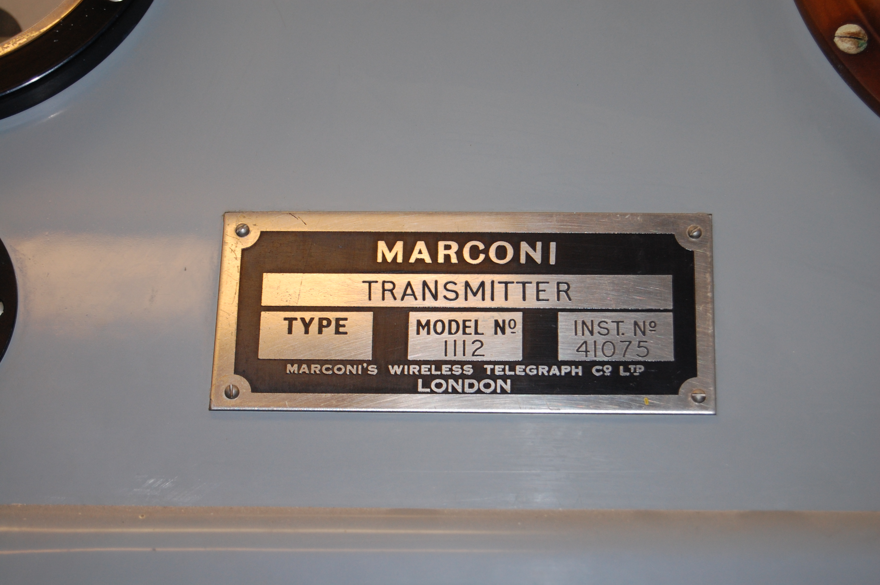 Sign at the Marconi transmitter at Bergen kringkaster, Askøy, Norway.